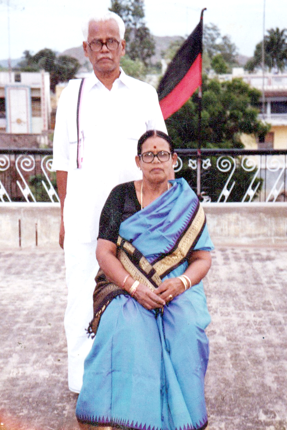 S. Murugaiyan (07 August 1920 - 06 January 2003) was an Indian politician, former Member of parliament, Lok Sabha and former Member of the Legislative Assembly of Tamil Nadu. He was elected to the Tamil Nadu legislative assembly from Thurinjapuram constituency in 1962 and from Kalasapakkam constituency as a Dravida Munnetra Kazhagam candidate in 1967, and 1971 elections.[1][2] He was also elected as Member of Parliament from Tirupattur constituency in 1980 lok sabha election.[3] He then served as Municipal Chairman of Tiruvannamalai and leader of Tiruvannamalai Sengunthar Mahajana sangam. In Tiruvannamalai a educational institution was named as S. Murugaiyan memorial model high school.[4]